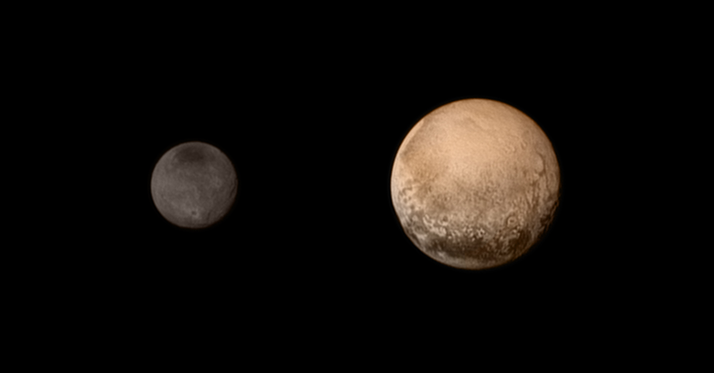 Pluto and Charon viewed by the New Horizons space probe on July 11, 2015.Original caption of image: A portrait from the final approach. Pluto and Charon display striking color and brightness contrast in this composite image from July 11, showing high-resolution black-and-white LORRI images colorized with Ralph data collected from the last rotation of Pluto. Color data being returned by the spacecraft now will update these images, bringing color contrast into sharper focus.